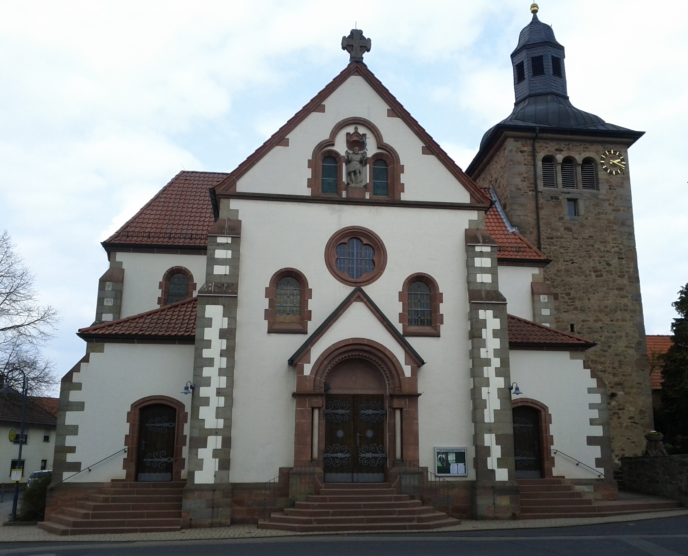 Catholic church, Kleinlueder, Hesse, Germany